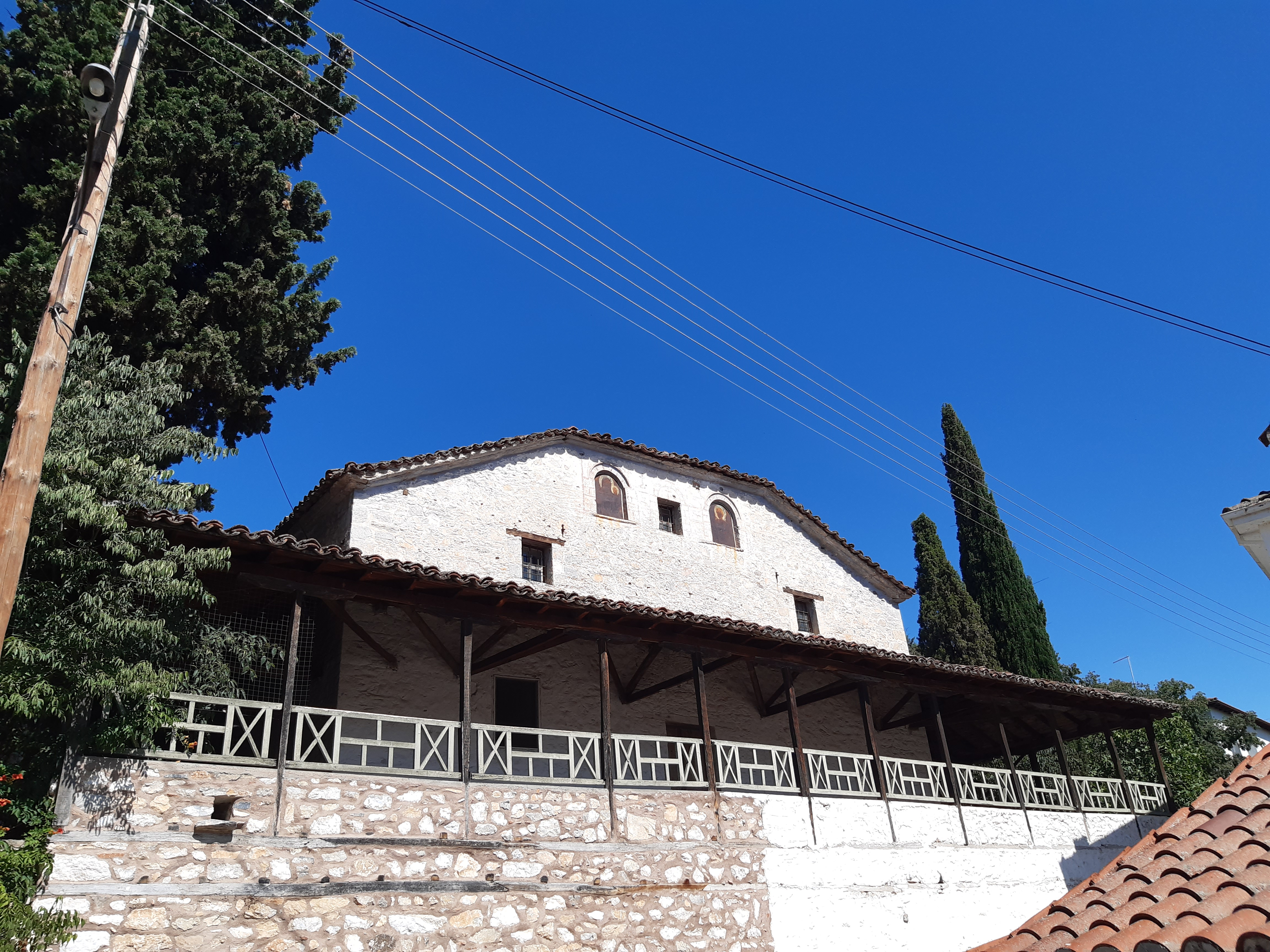 Saint Thomas Church, Kastoria